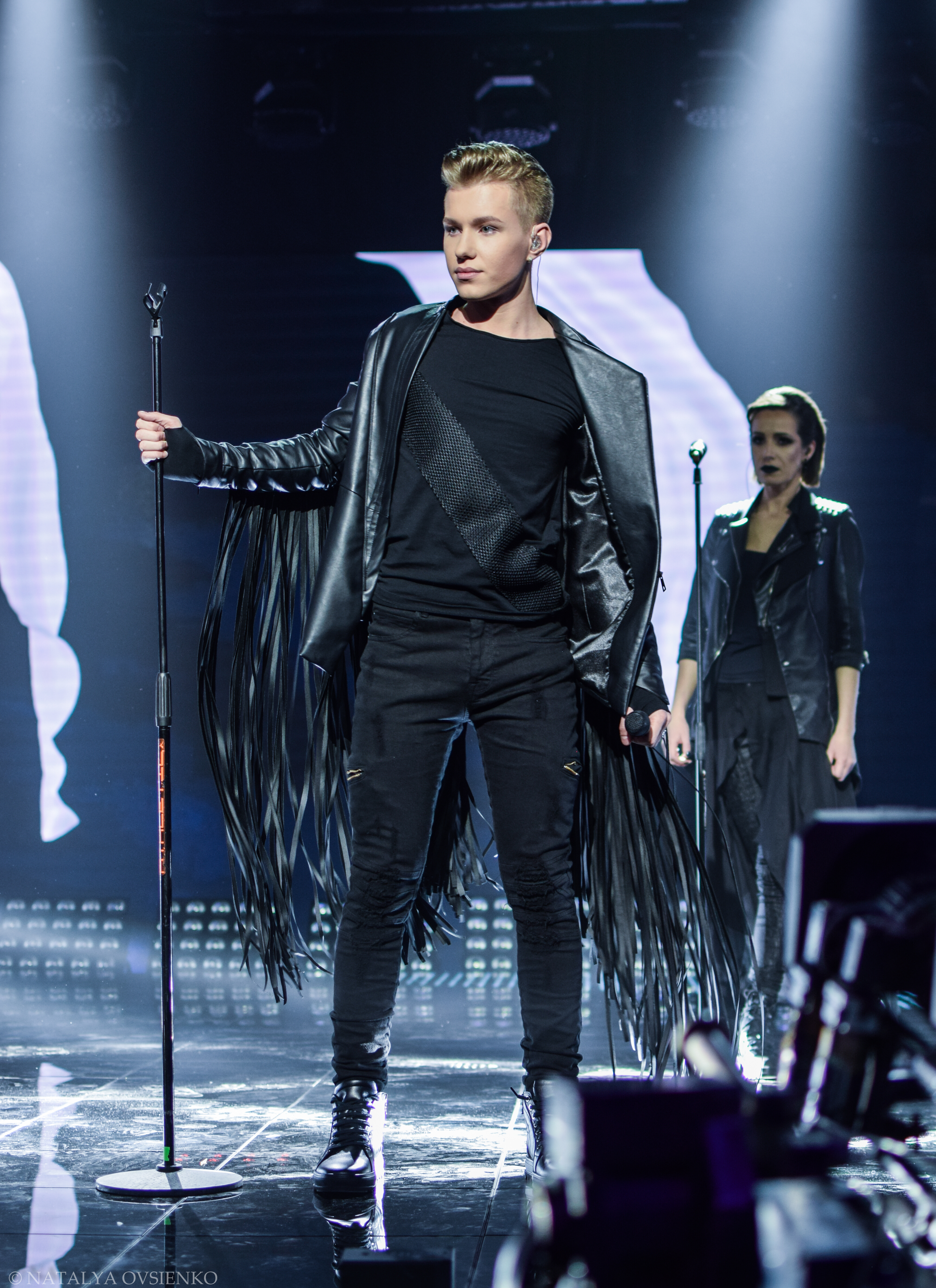 National Selection For Eurovision 2017 From Belarus, Minsk